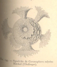 Squelette de Coronosphaera calycina Haeckel (Challenger) Subject: Algae, Coronosphaera Tag: Aquatic Botany